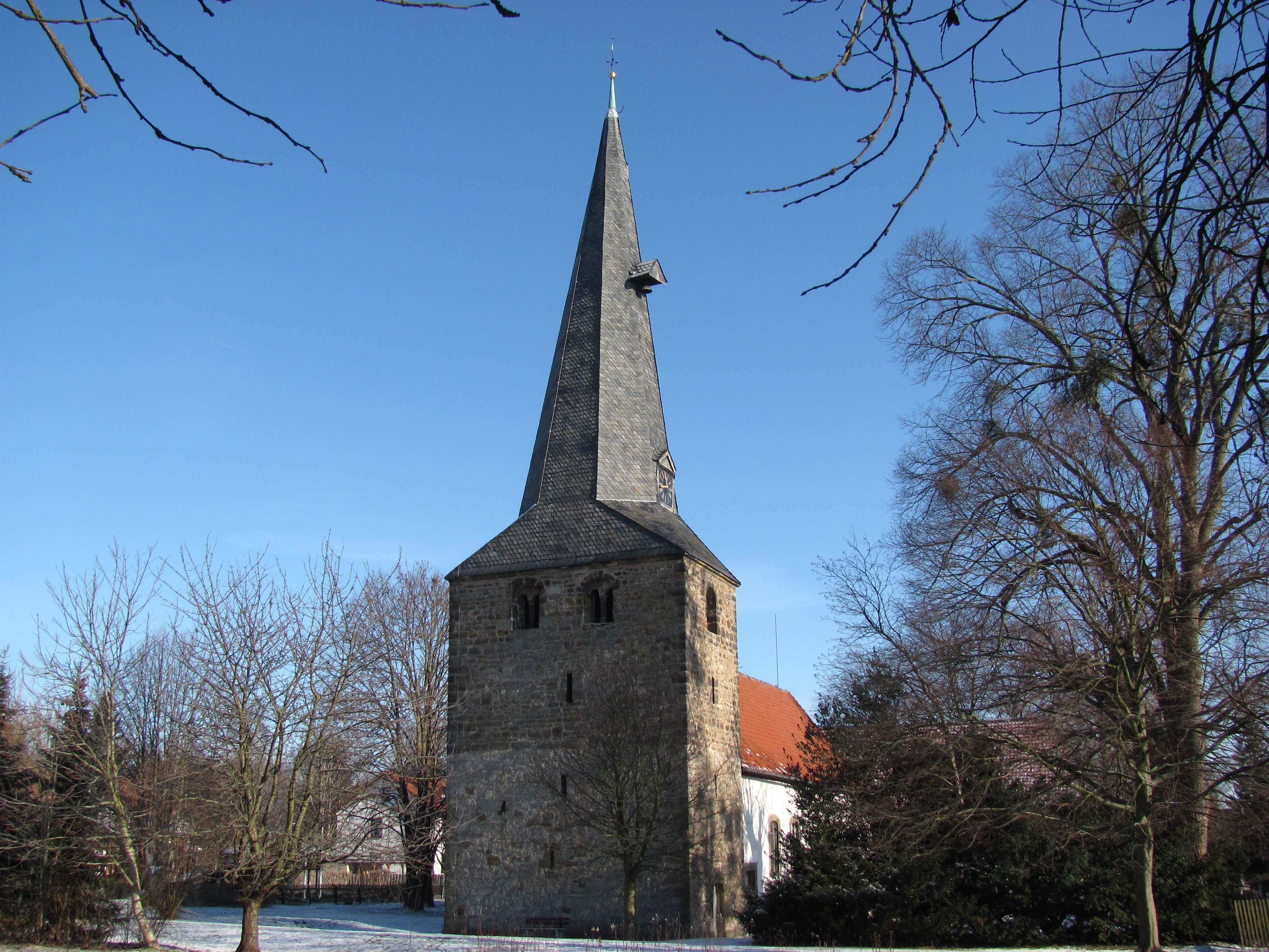 Protestant Church, Holle-Grasdorf, near Hildesheim, Lower Saxony, Germany.